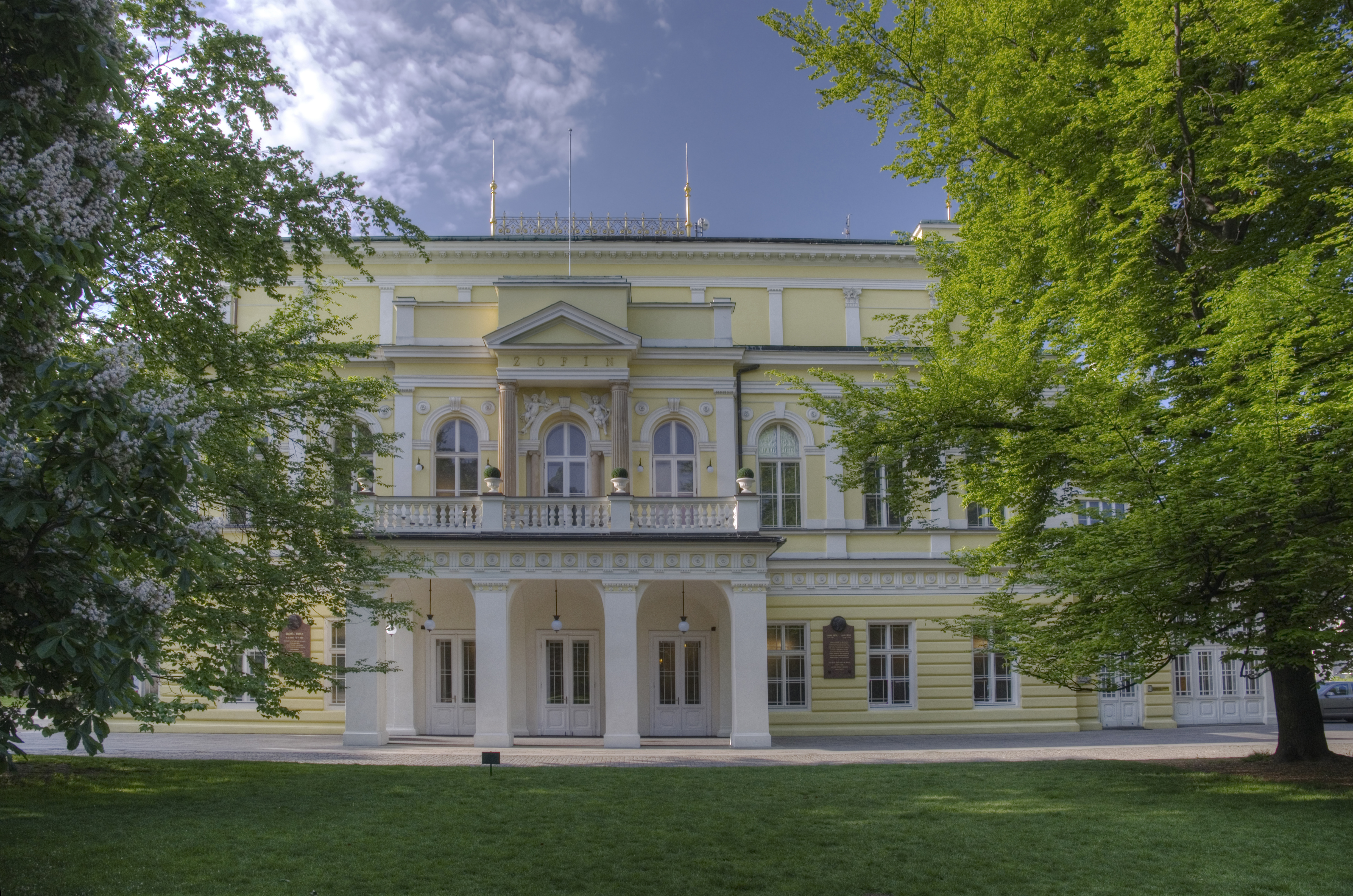 Zofin palace, Prague, Czech Republic